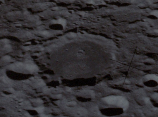 Oblique view of Kohlschütter, on the far side of the moon. North at left.